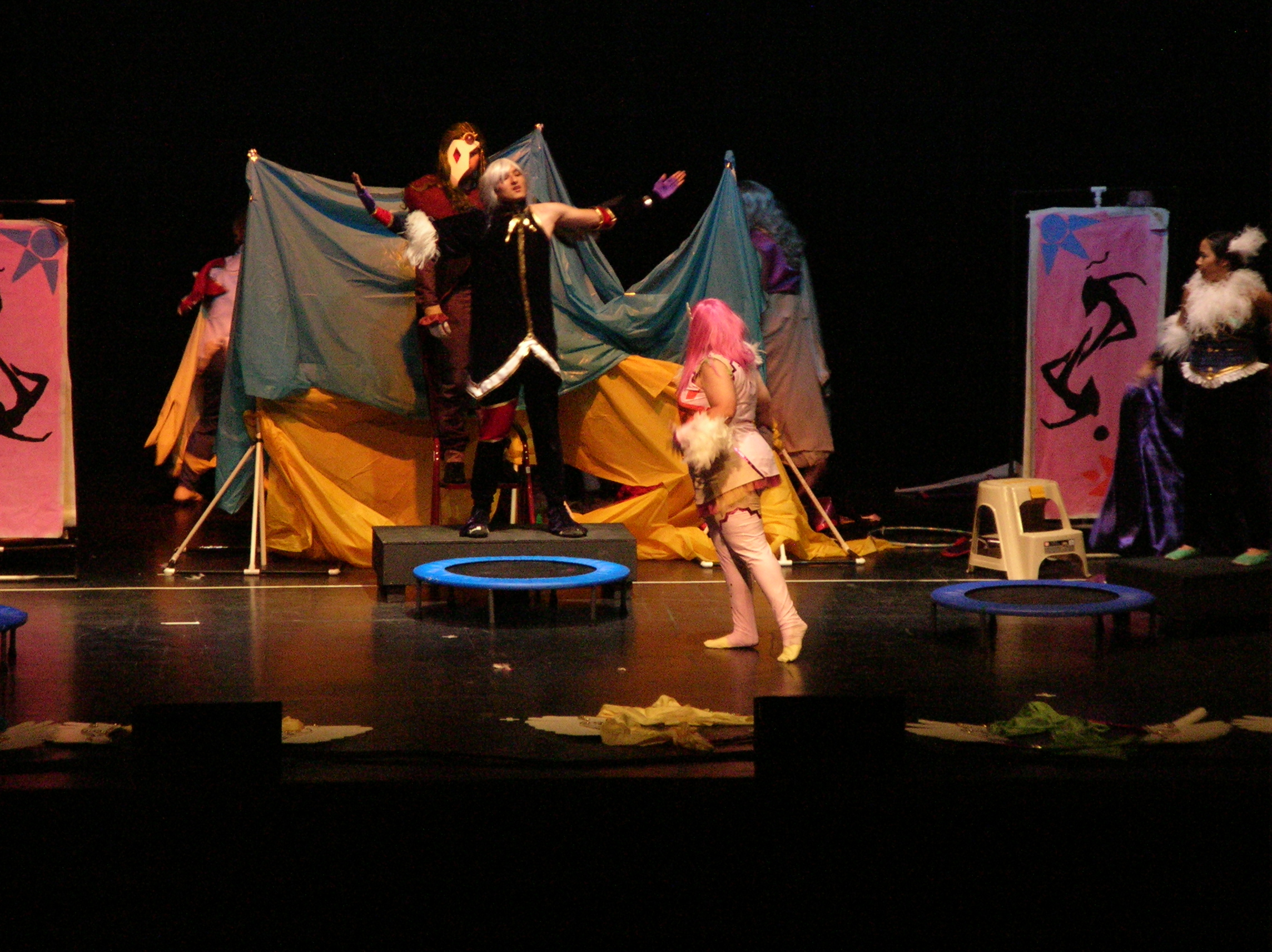 Project Victory Cosplay Theatre presents a Kaleido Star-themed performance entry during the Cosplay Spectacular at the Masquerade at FanimeCon 2010 in San Jose, California.